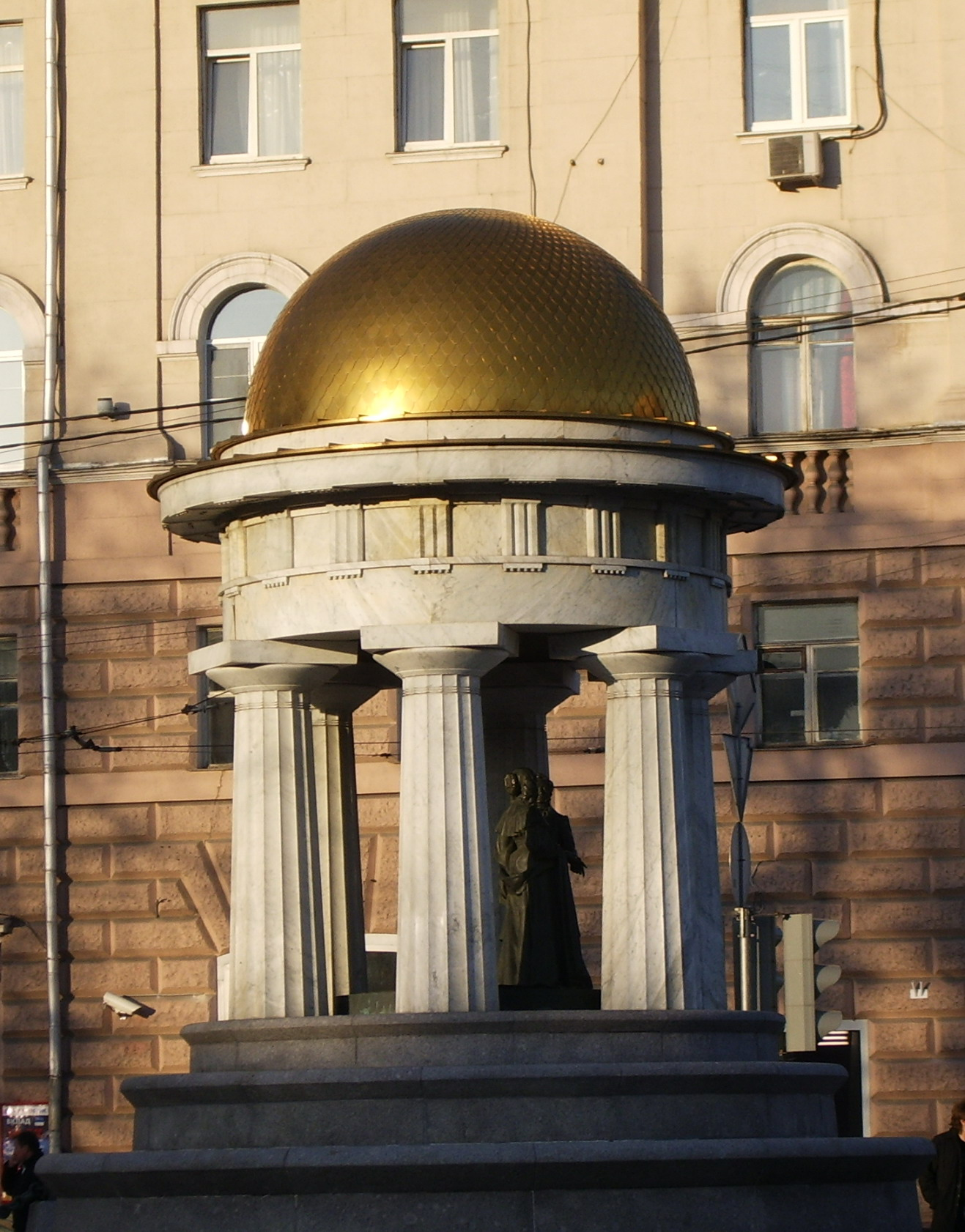 Fountain-rotunda «Natali and Alexander» (A.Pushkin and N.Goncharova), 1999, by Michail Belov, Maxim Kharitonov and Michail Dronov.